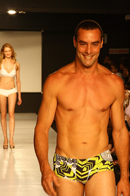 Brazilian model Paulo Zulu.